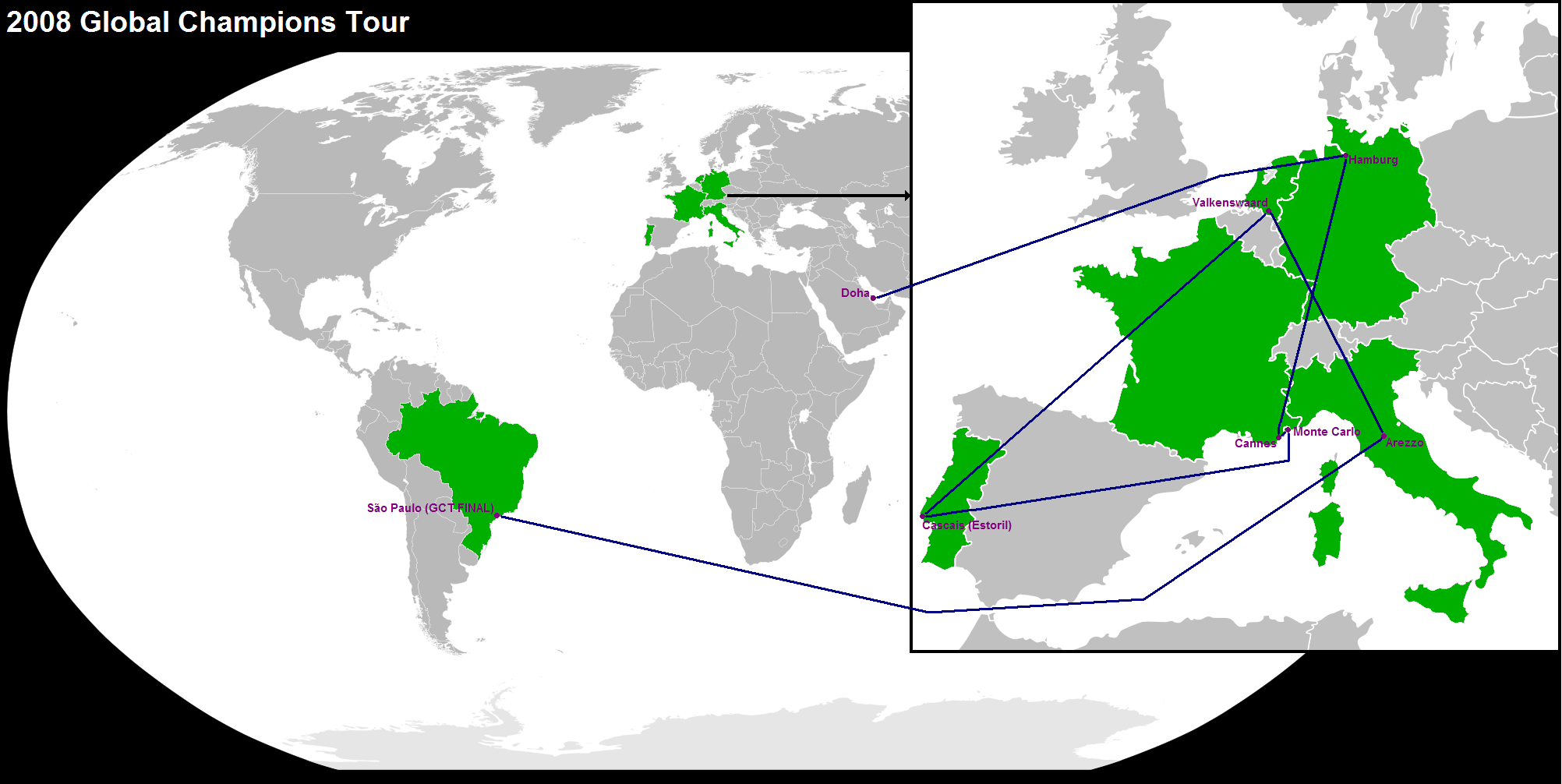 competitions of the 2008 Global Champions Tour This is a retouched picture, which means that it has been digitally altered from its original version. Modifications: competitions of the 2008 Global Champions Tour. The original can be viewed here: BlankMap-World6.svg. Modifications made by Nordlicht8. This is a retouched picture, which means that it has been digitally altered from its original version. Modifications: competitions of the 2008 Global Champions Tour. The original can be viewed here: Blank map europe.svg. Modifications made by Nordlicht8.